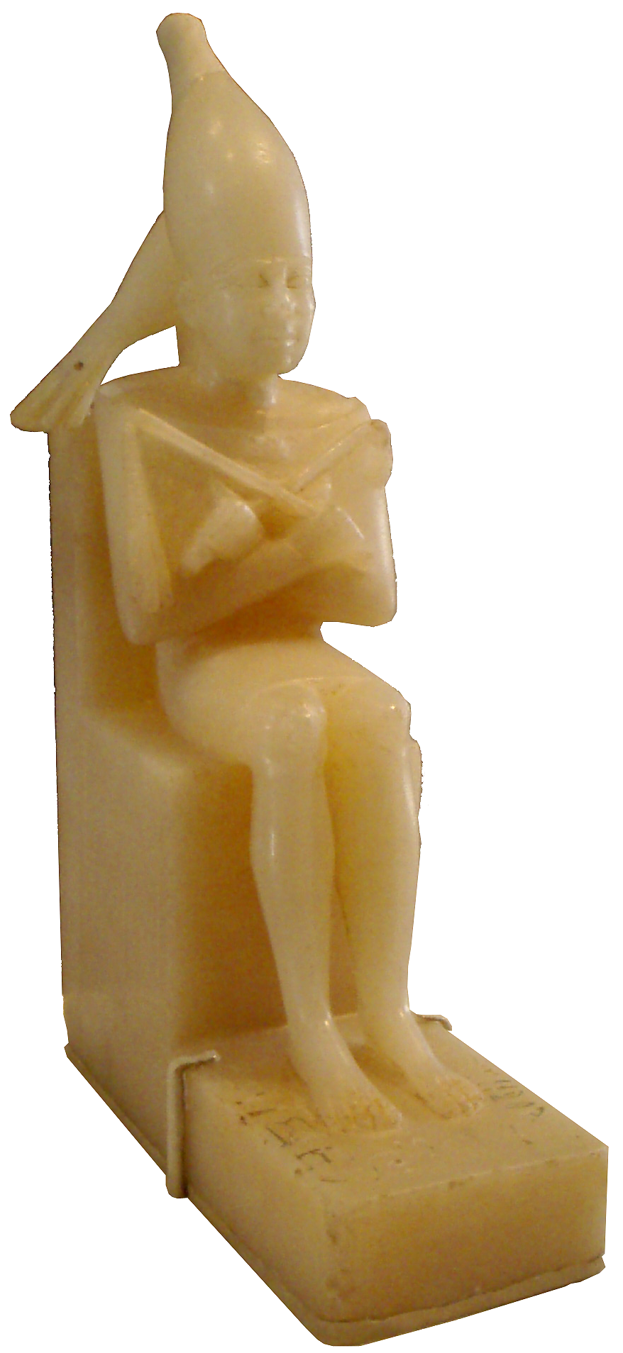 Alabaster statuette of Pepi I dressed for the Sed Festival, flanked by Horus.